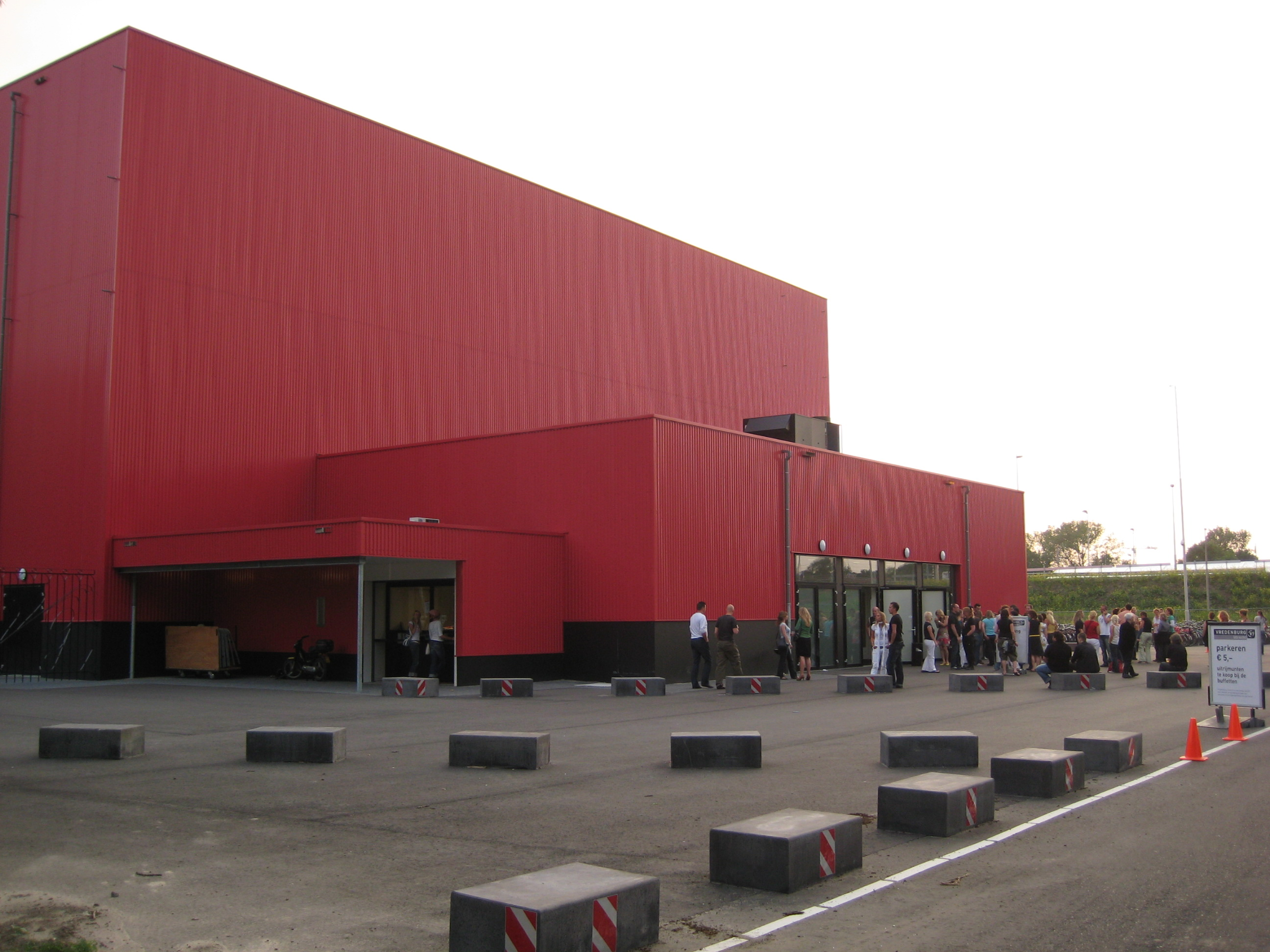 De Rode Doos (the Red Box): temporary location for performences normally held at the Vredenburg, musical centrum, Utrecht, at location Leidsche Rijn